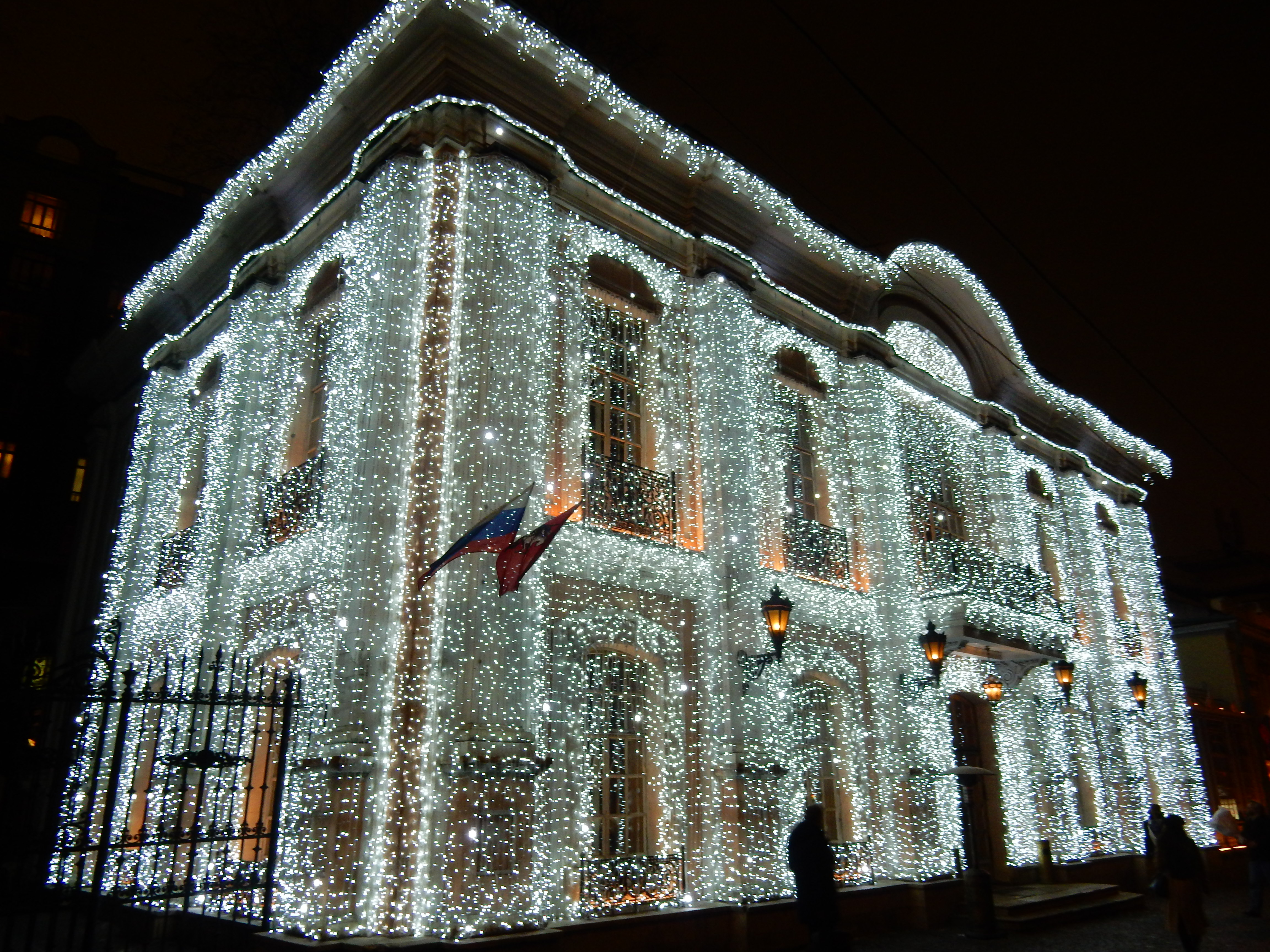 Moscow, Tverskoy Boulevard 26a, cafe Pushkin in Xmas decorations. December 2014.